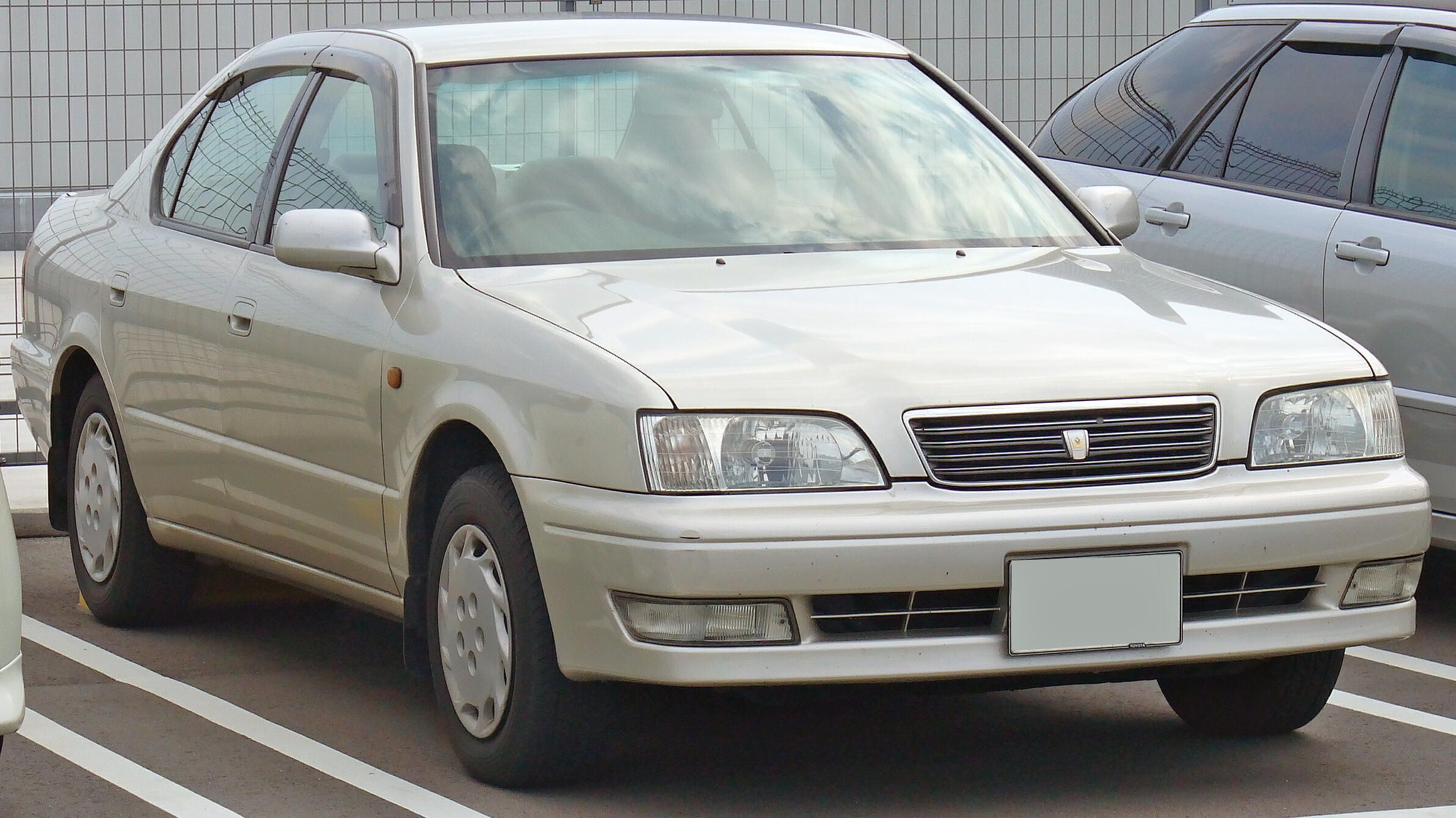 Toyota Camry(1996-1998) Japanese Spec